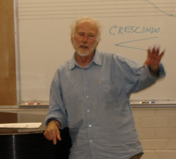 R. Murray Schafer in 2007 at the University of Arizona